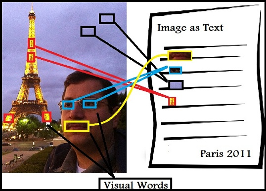 Images as a documents rich of visual words (patches)